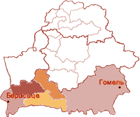 Pinsk archbishopric